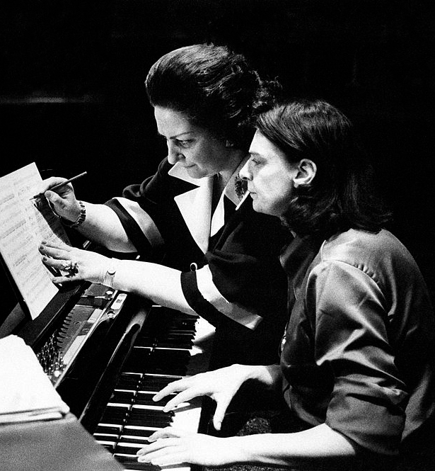 Spanish soprano Montserrat Caballé (Maria de Montserrat Viviana Concepcion Caballé i Folch) rehearsing at La Scala. Milan, January 1975